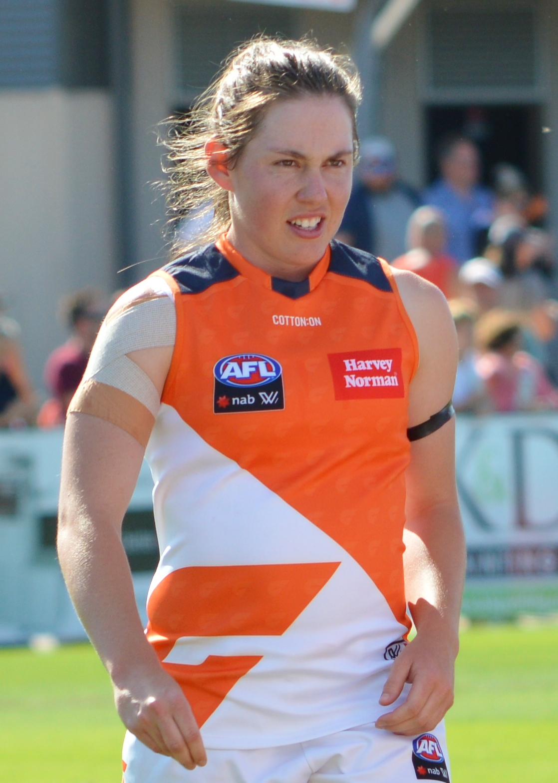 Jodie Hicks during the round 1, 2018 AFL Women's match between Melbourne and Greater Western Sydney